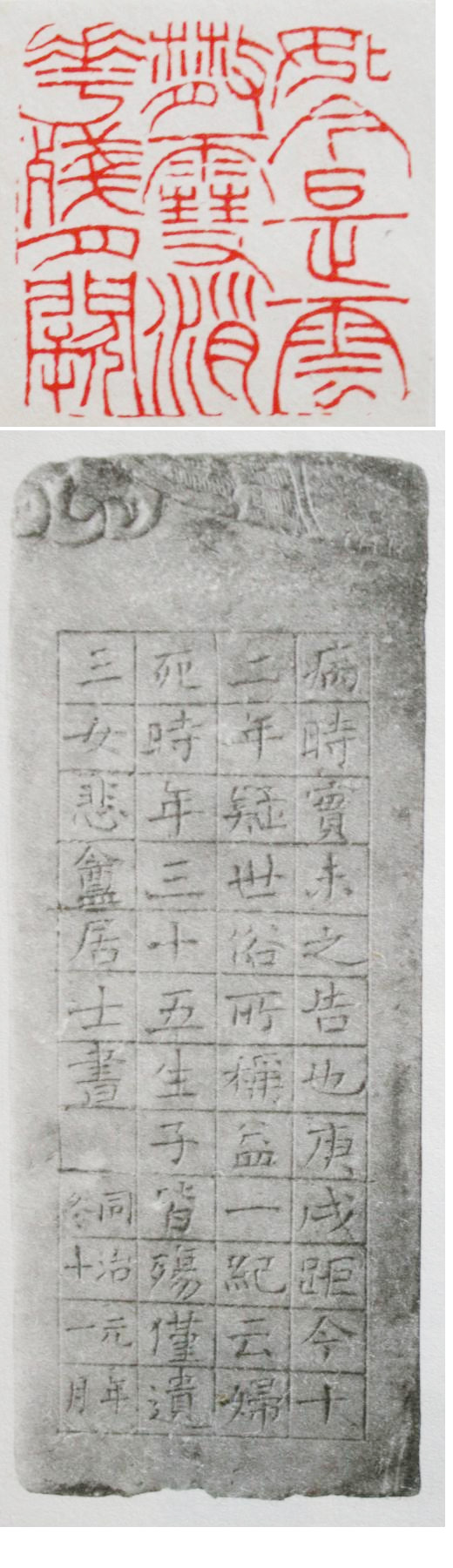 Seal of Zhao Zhiqian(1829-1884)